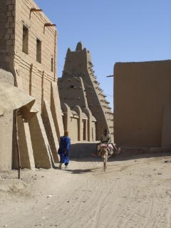 Street Scene with Sankore Mosque, Timbuktu, Mali.